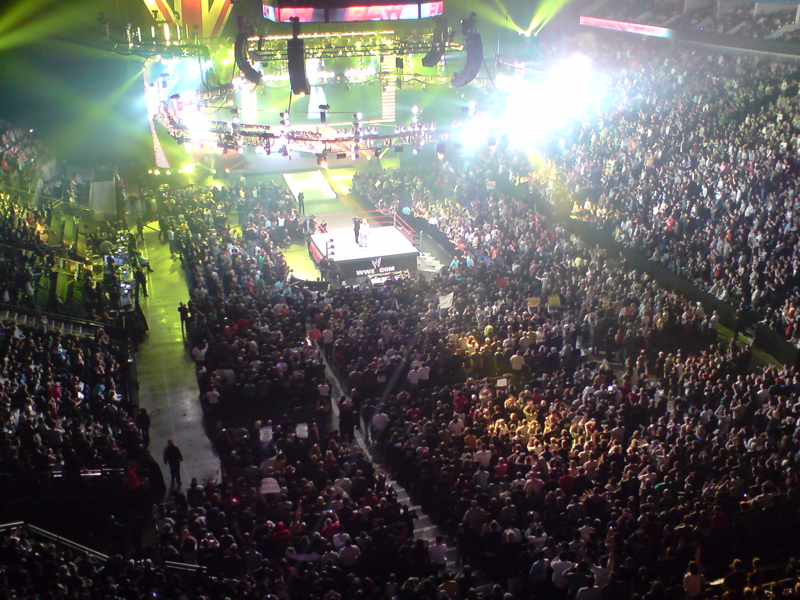 Shot of the interior of the O2 arena during a WWE RAW event